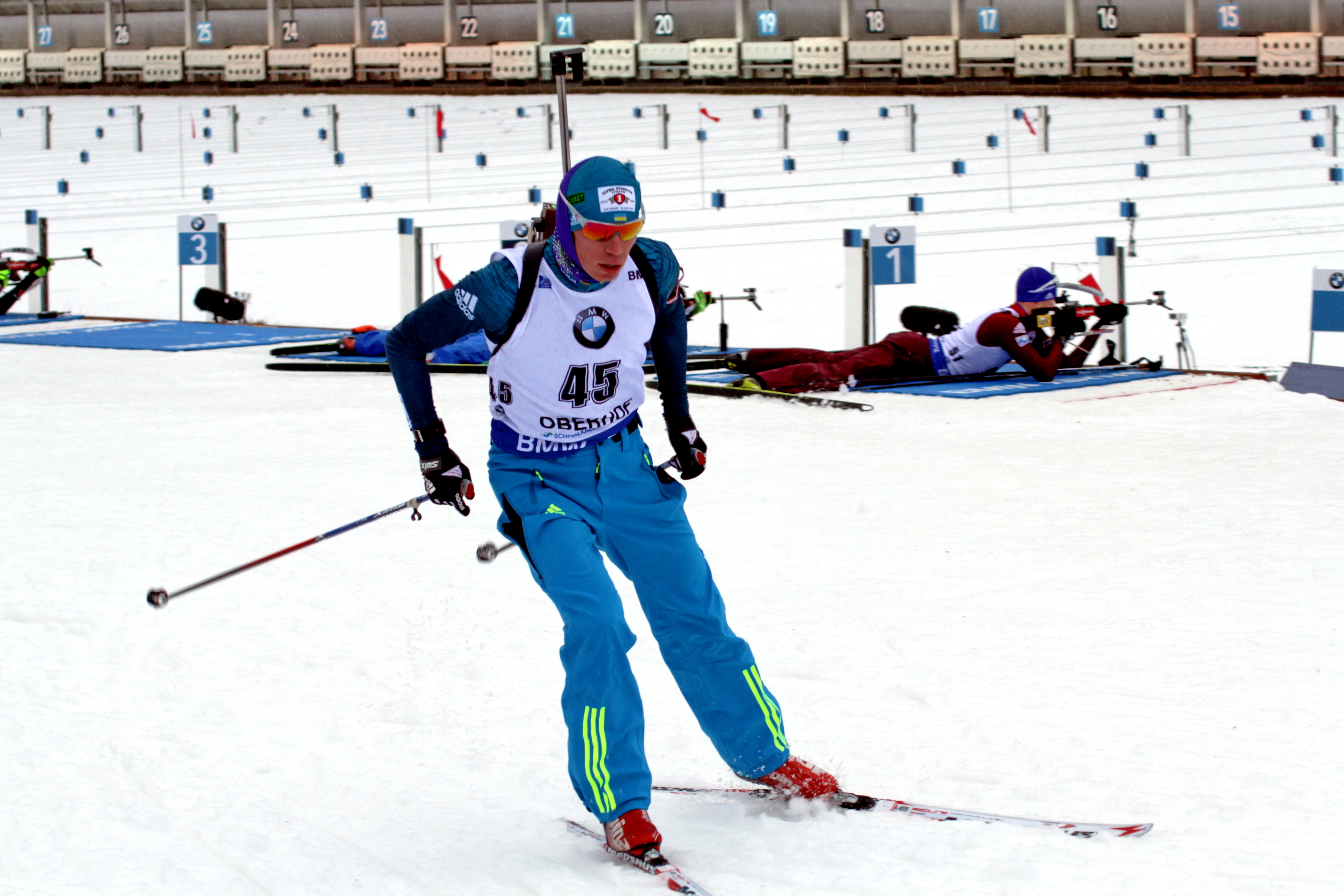 2018 Oberhof Biathlon World Cup - Sprint Men